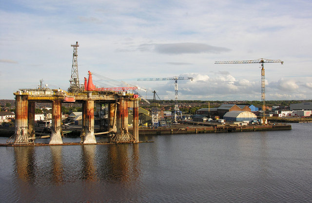 Former Readhead shipyard, South Shields The former John Readhead shipyard is now used for the repair of offshore equipment such as this rig.